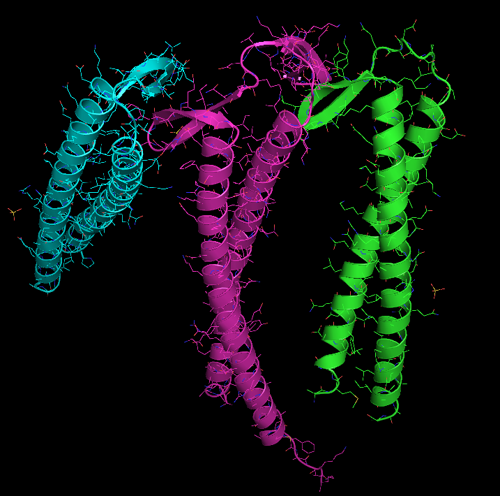 PyMOL cartoon image of data from the crystal structure of Prefoldin from archaea Pyrococcus horikoshii Ot3